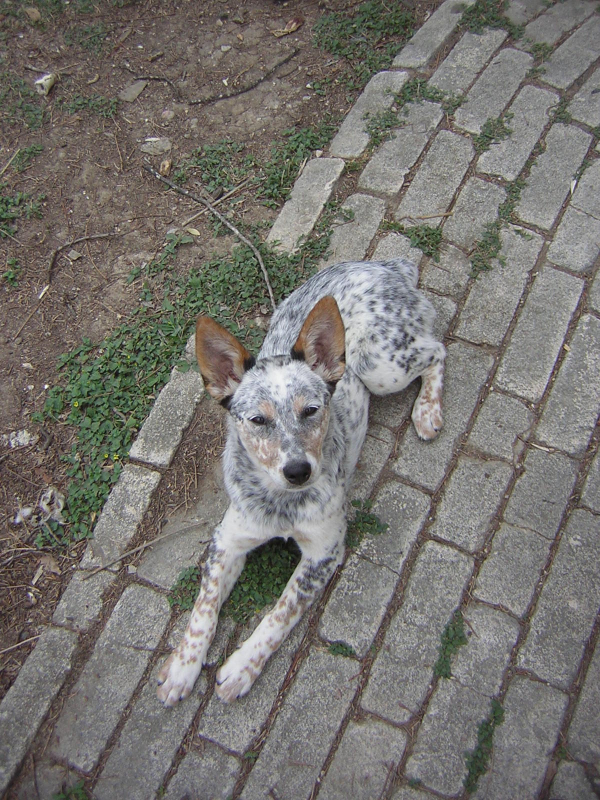 A 5 month old Texas Heeler Puppy